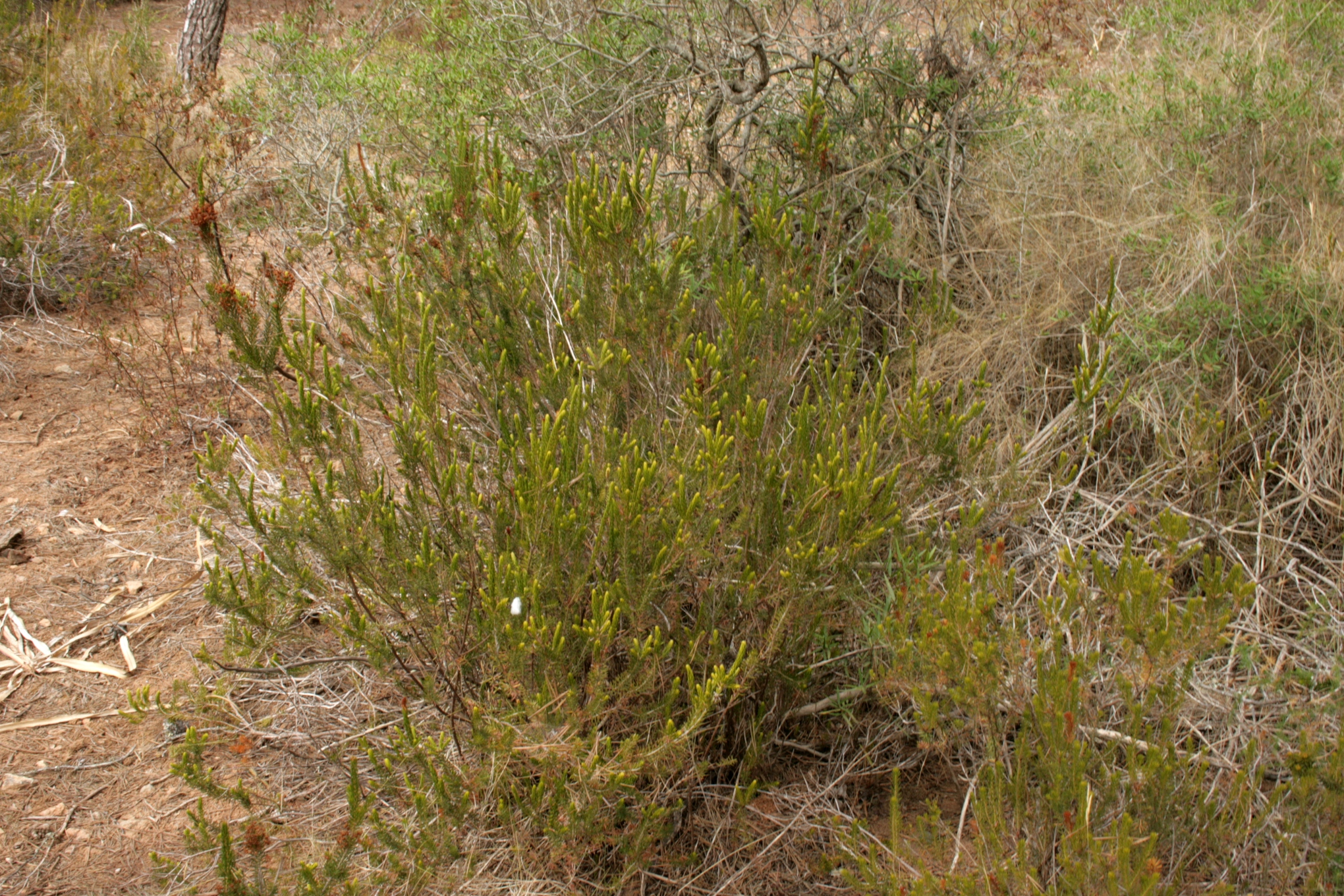 Erica multiflora: Habitus